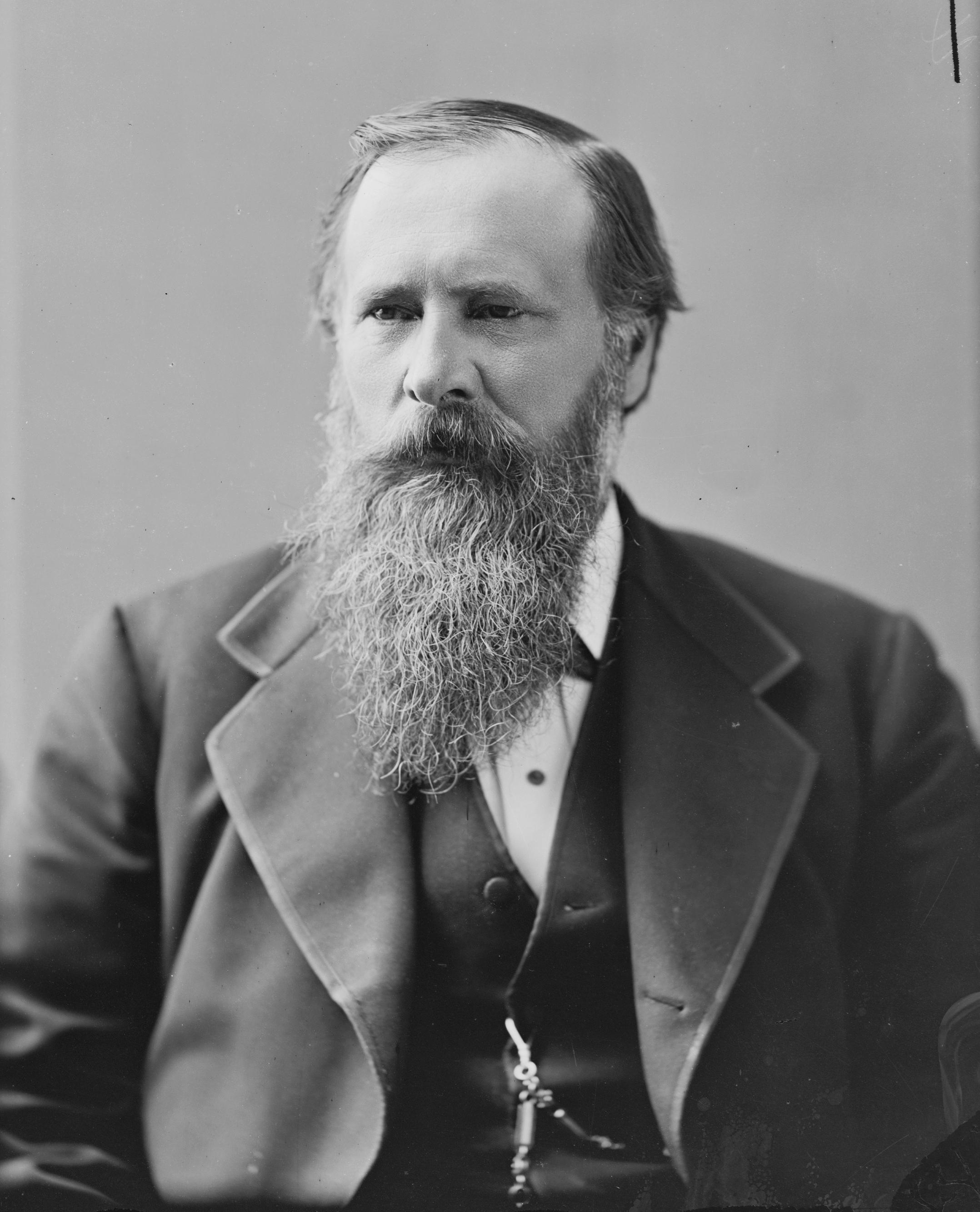 Jay Abel Hubbell. Library of Congress description: "Hubbell, Hon. J.A. of Mich.".